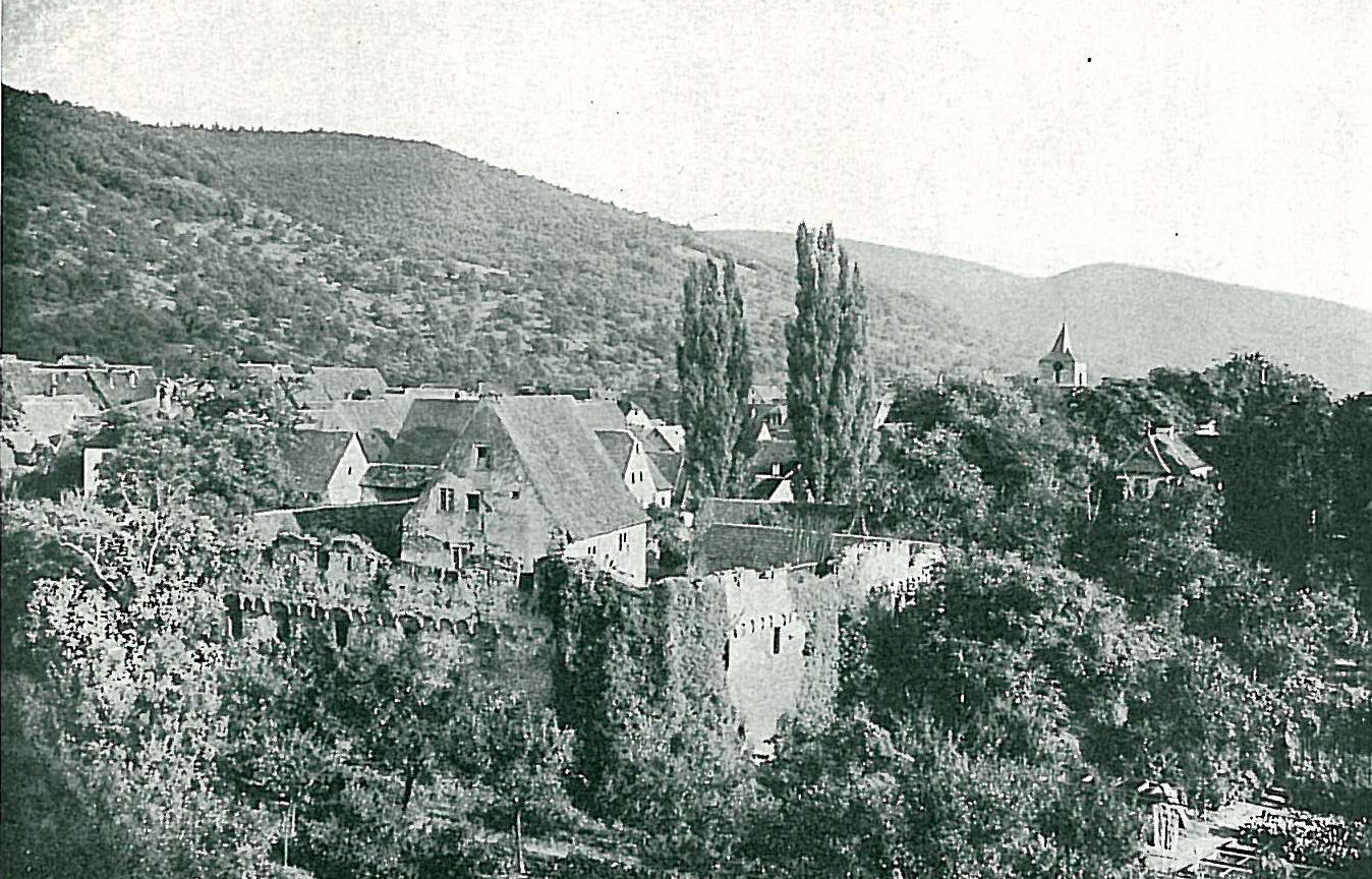 historical view of Heidelberg